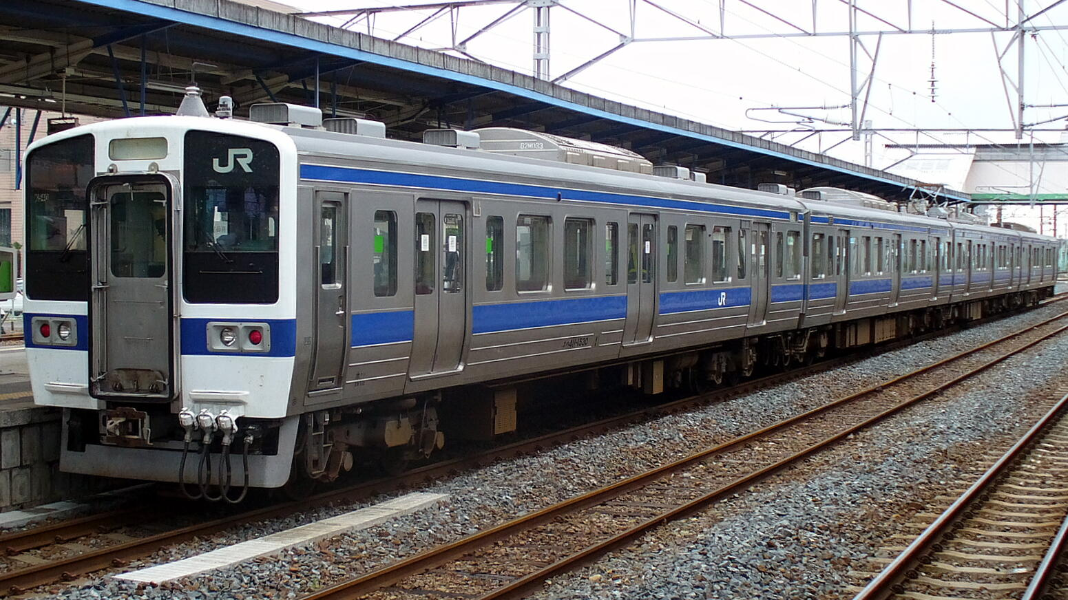 A JR East 415-1500 series EMU at Haranomachi Station on the Joban Line